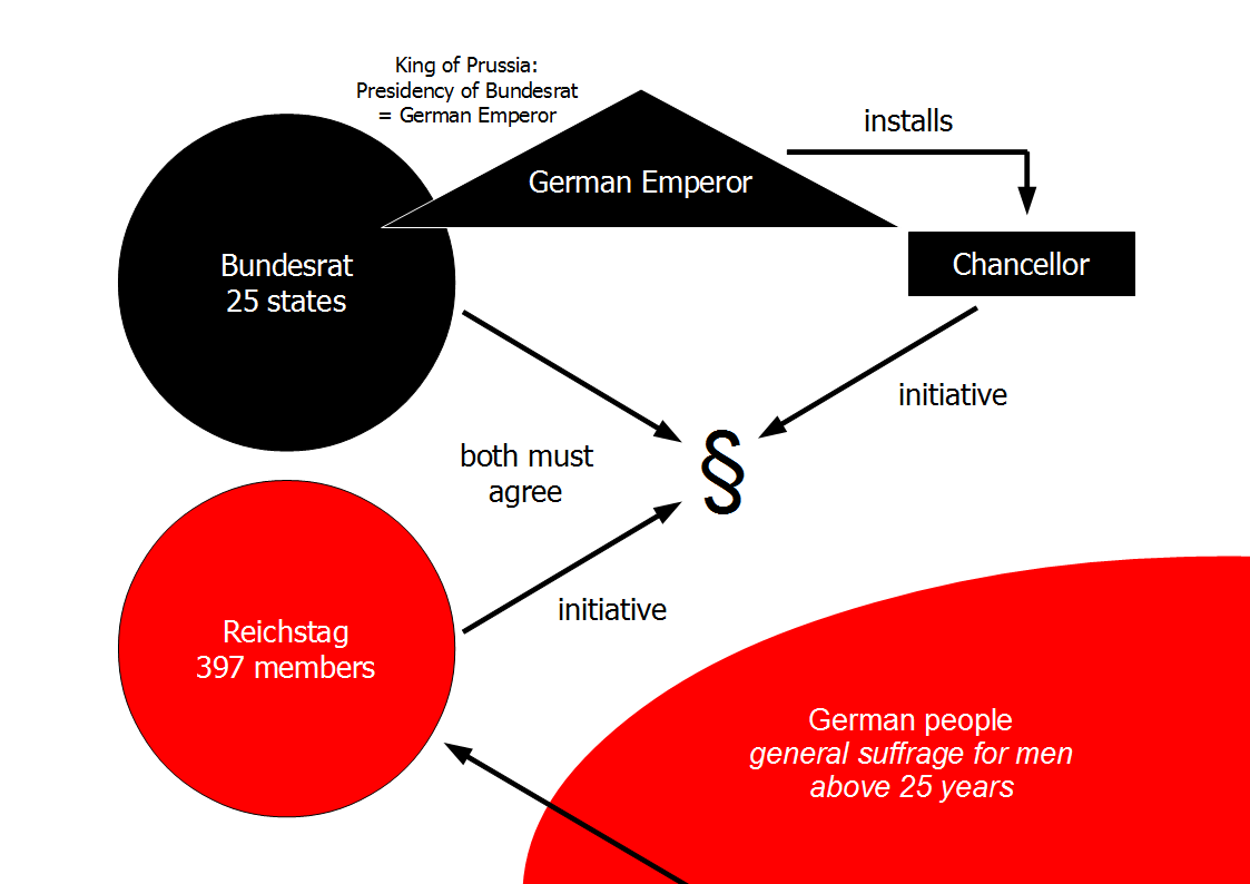 Constitution of the German Empire of 1871, English version